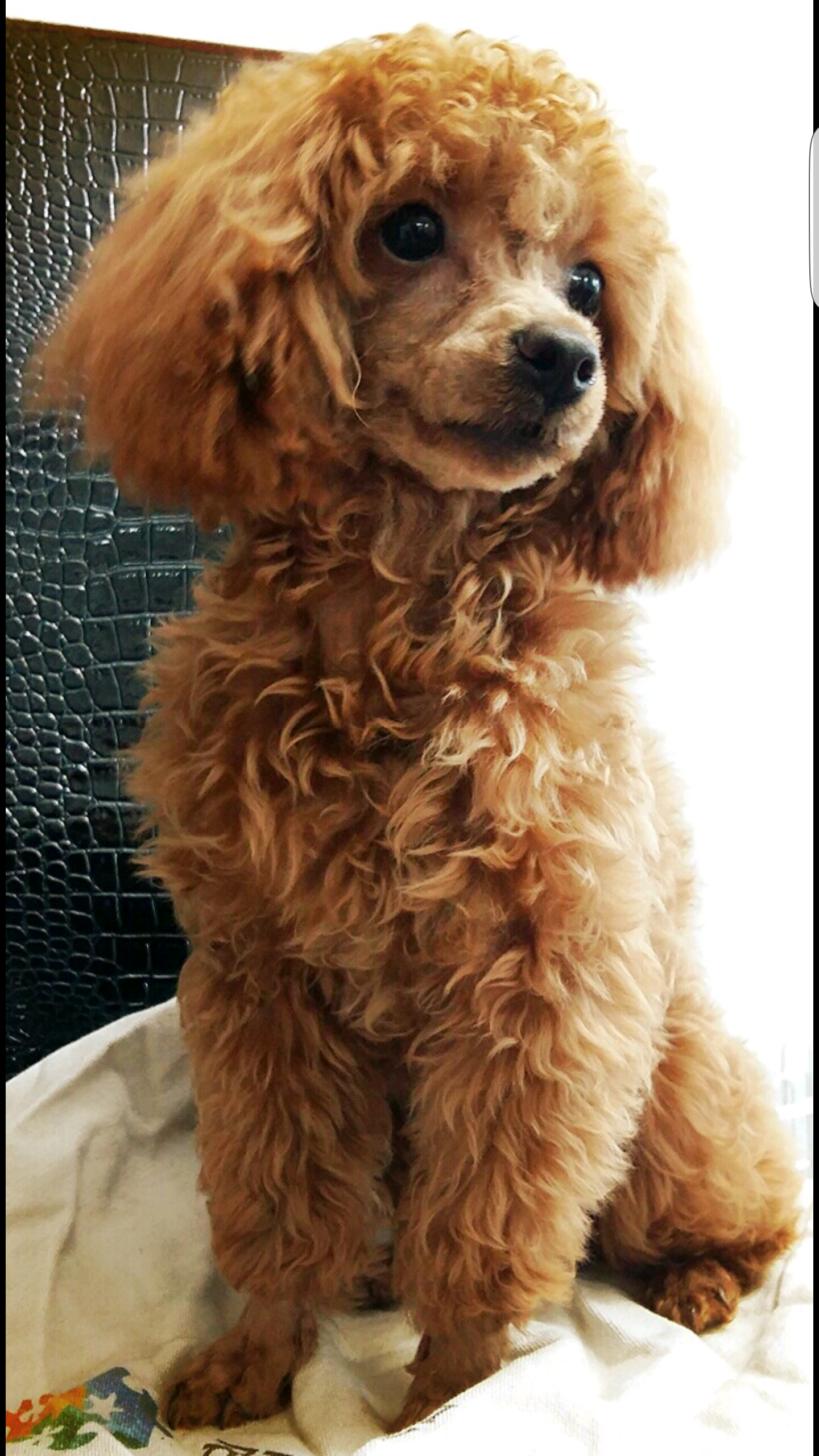 She is 2 years old and she doesn't recognize me sadly.